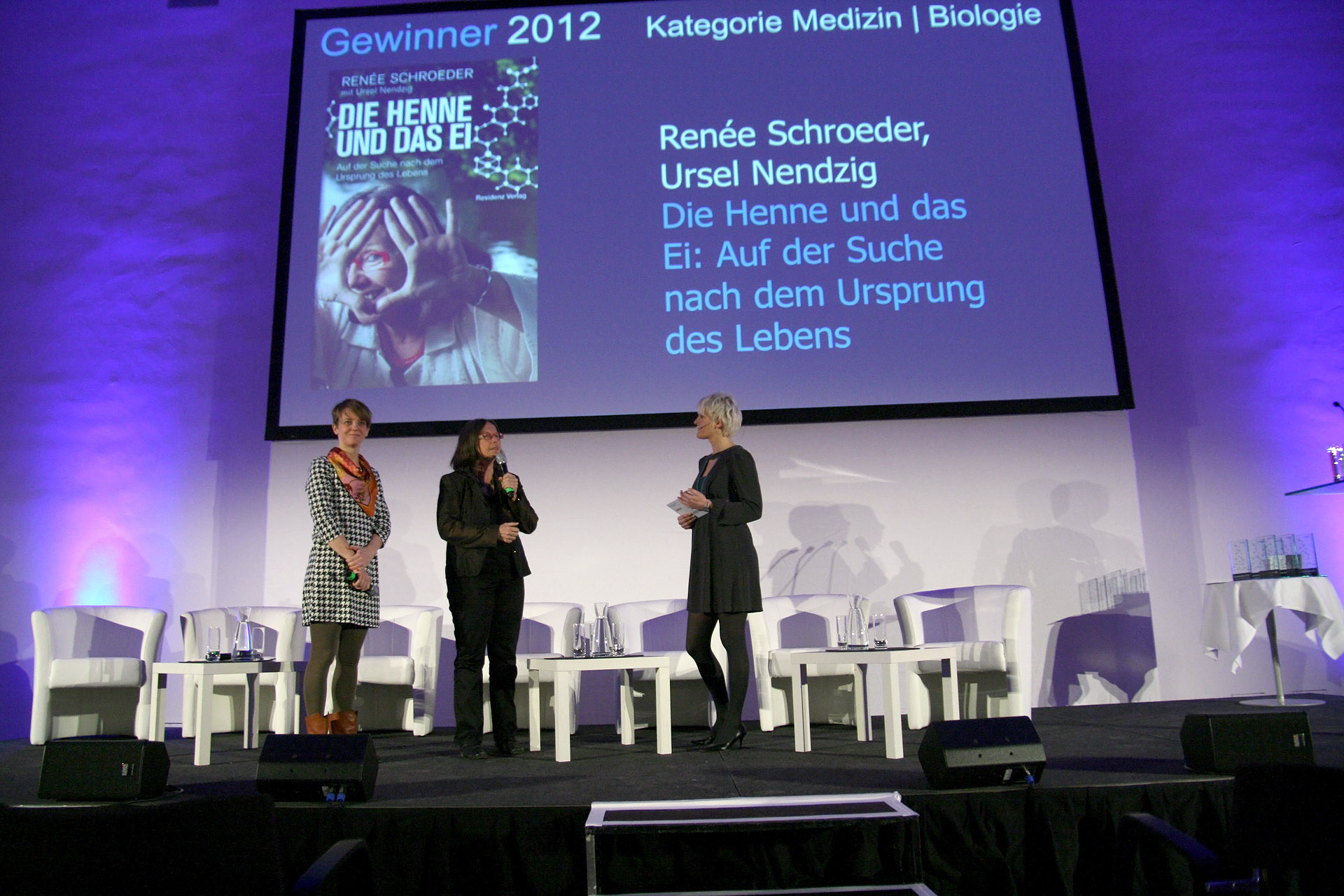 Award ceremony for the Science book of the Year, category "Medicine and Biology": Renée Schroeder and Ursel Nendzig for "Die Henne und das Ei. Auf der Suche nach dem Ursprung des Lebens" (Aula der Wissenschaften, Vienna).